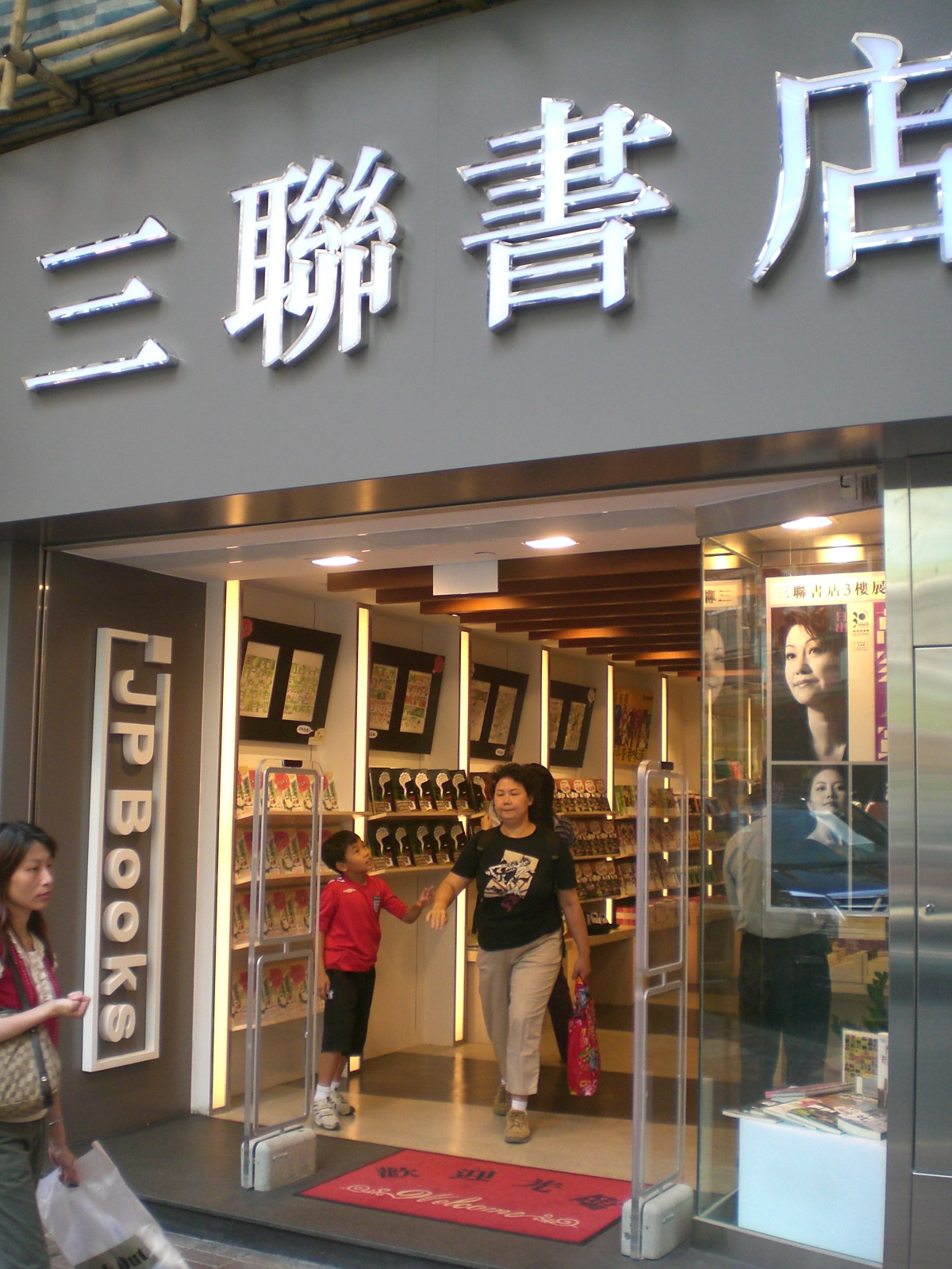 三聯書店 (香港): 灣仔zh:莊士敦道141號地下至4樓 A retailing shop of a publisher in Hong Kong. Author= User:SHOLYWOD